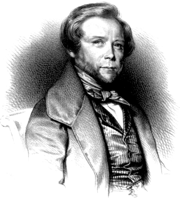 Drawing of David d'Angers (1788-1856), French sculptor.